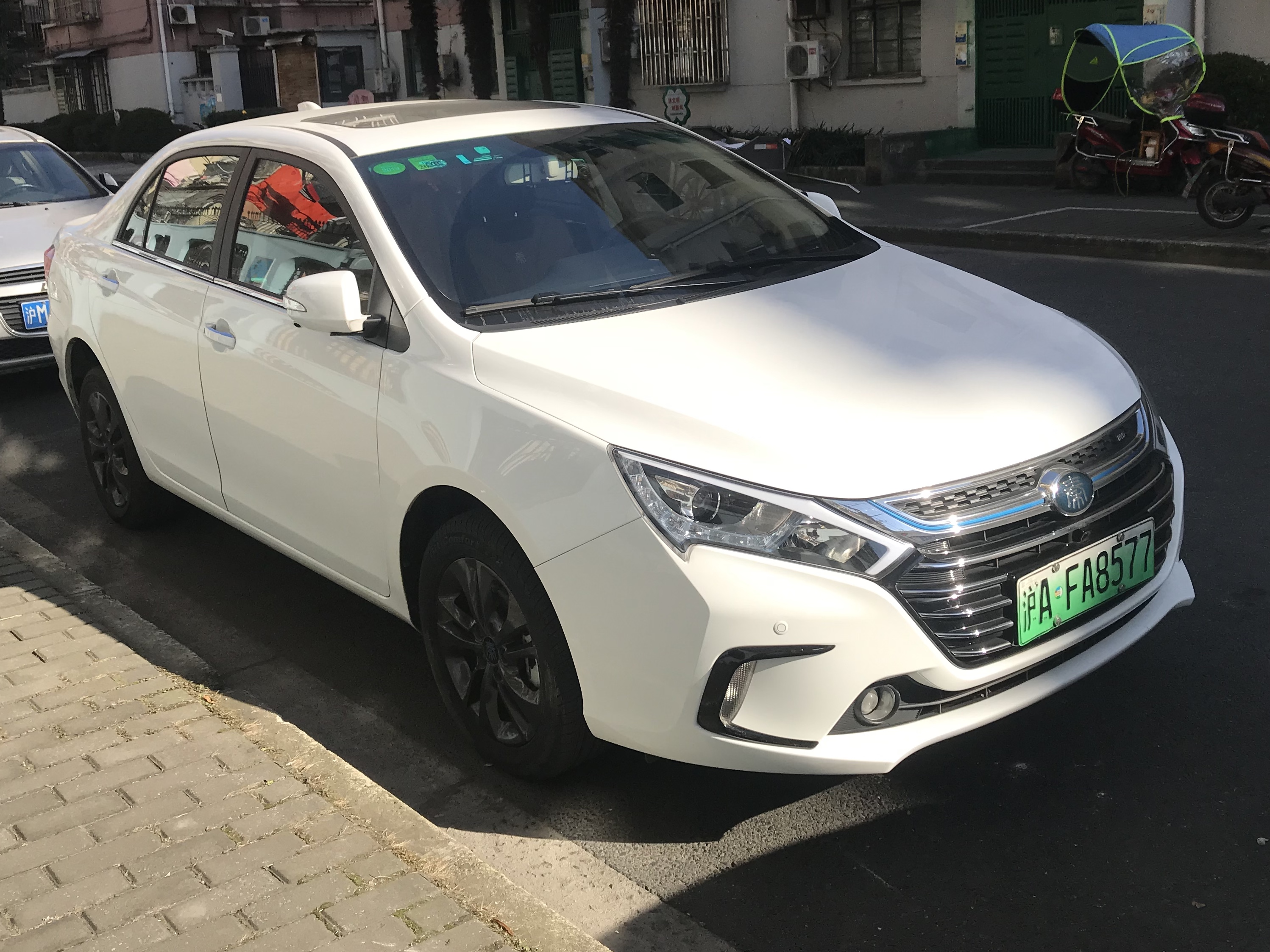 BYD Qin facelift front